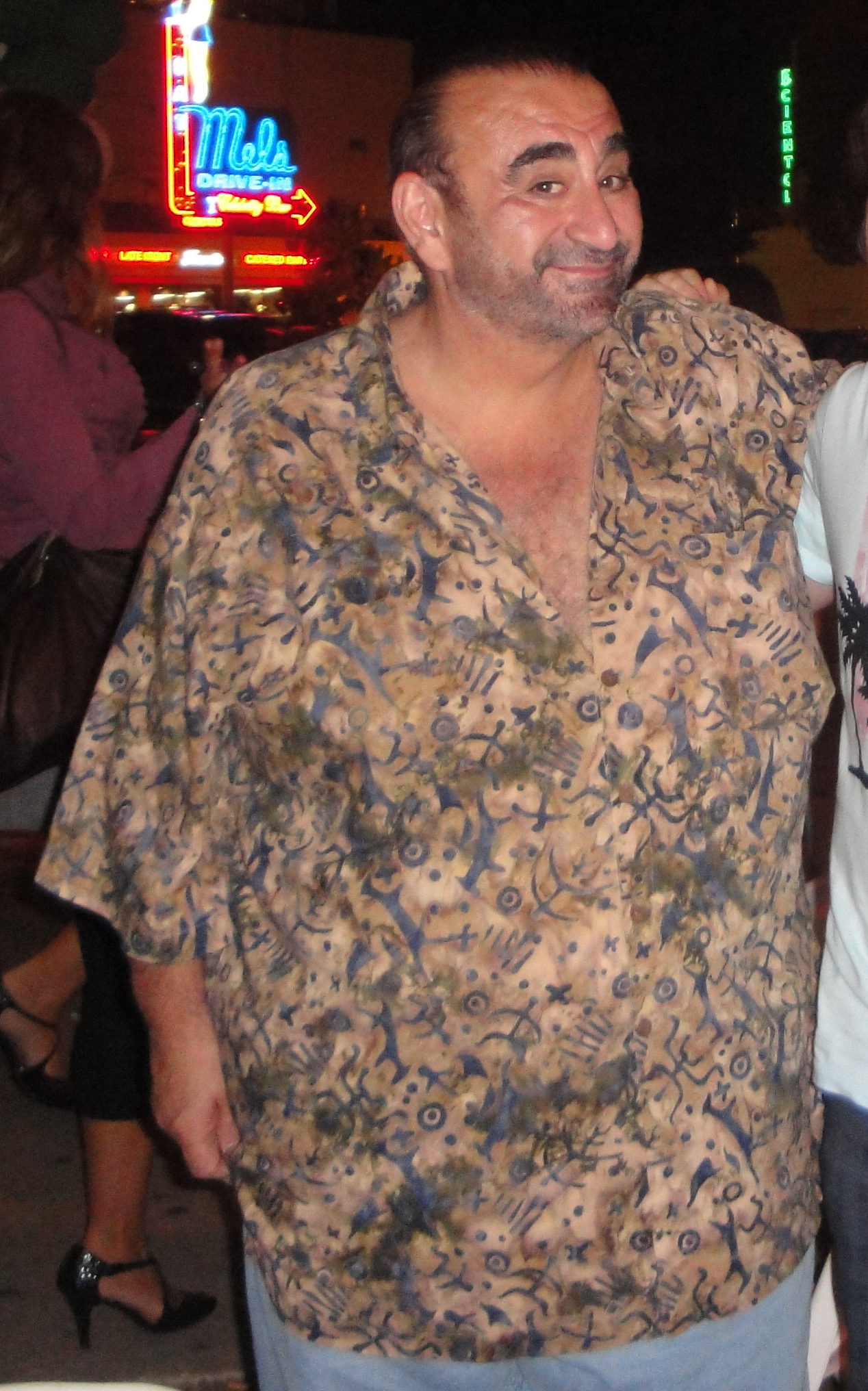 Ken Davitian